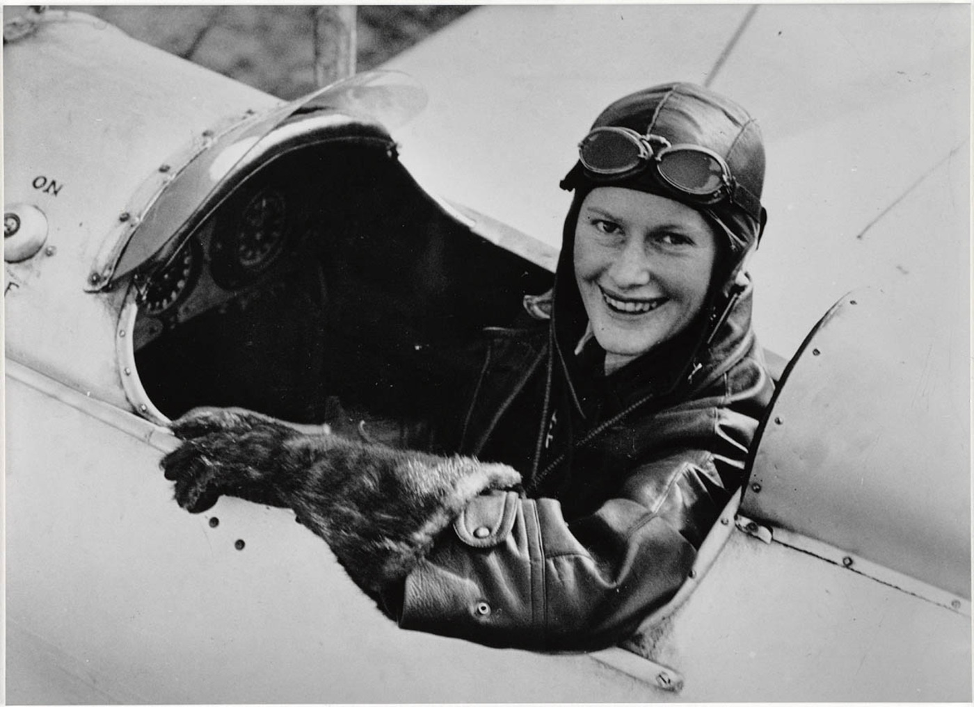 Nancy Bird in a Gypsy Moth at Kingsford Smith Flying School